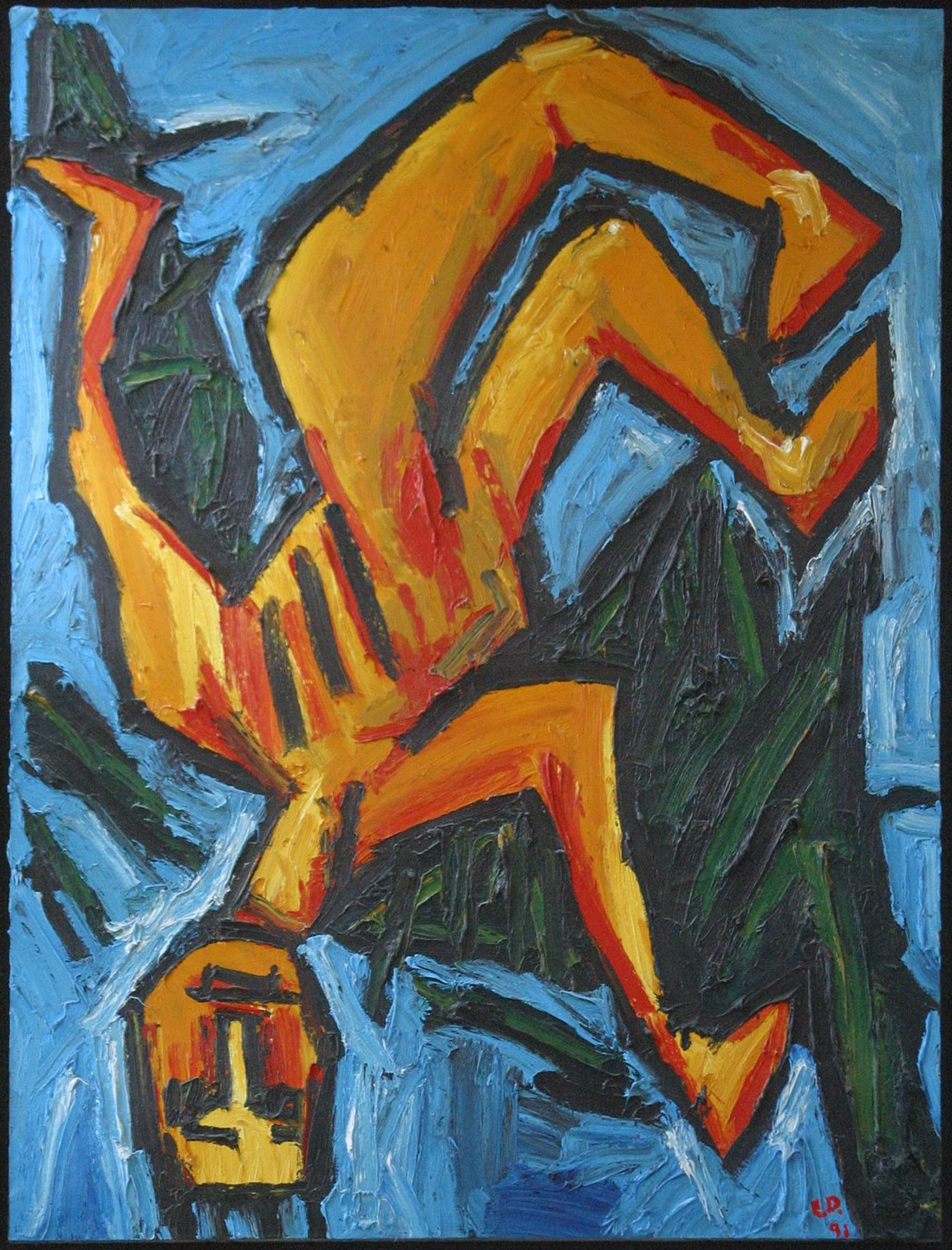 "Icarus" - oil on canvas - approx. 48in x 72in - from collection of the photographer